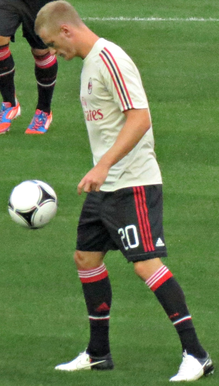 Ignazio Abate